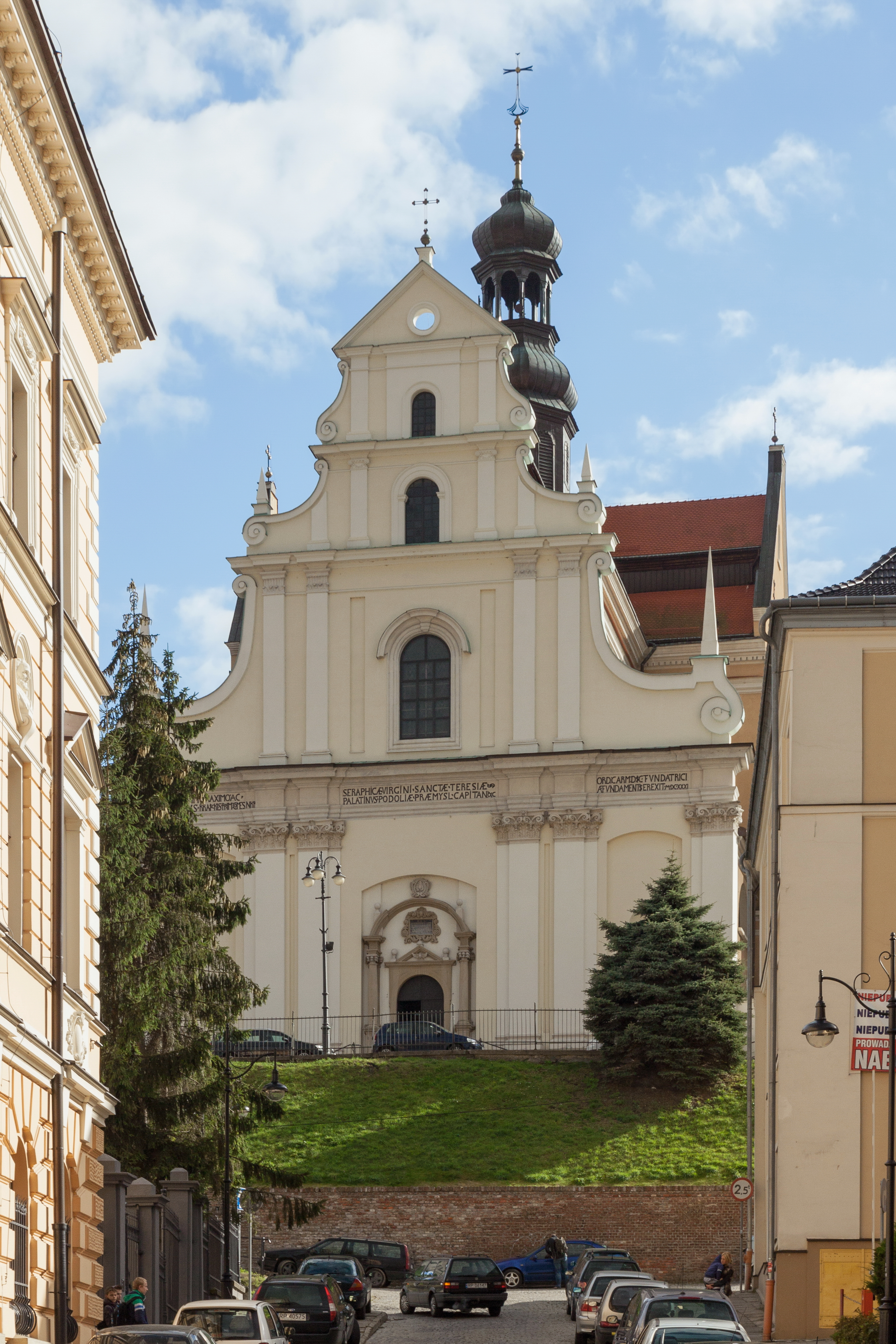 Saint Teresa Carmelite church. Przemyśl, Subcarpathian Voivodeship, Poland.